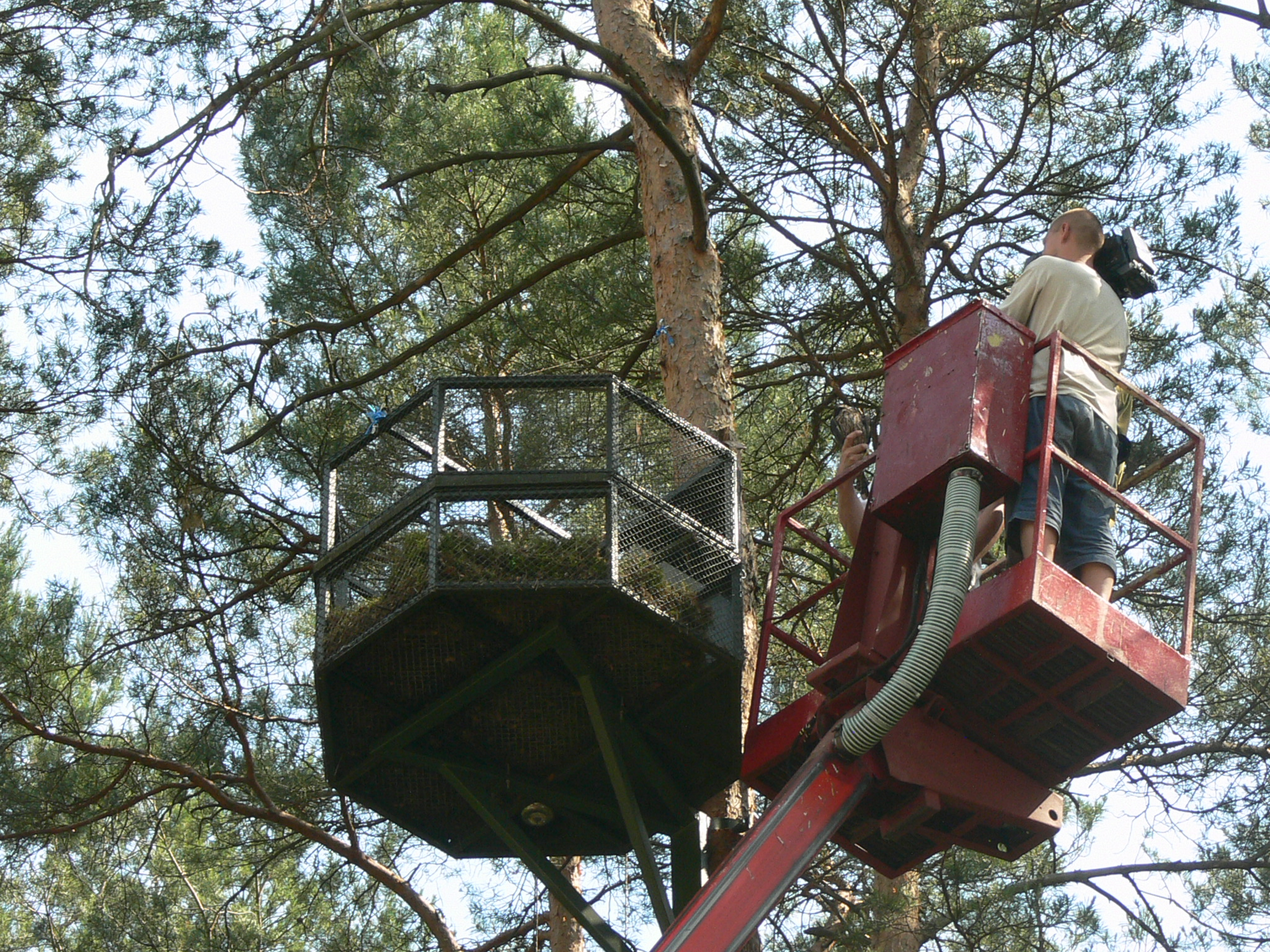 peregrine falcon reintroduction